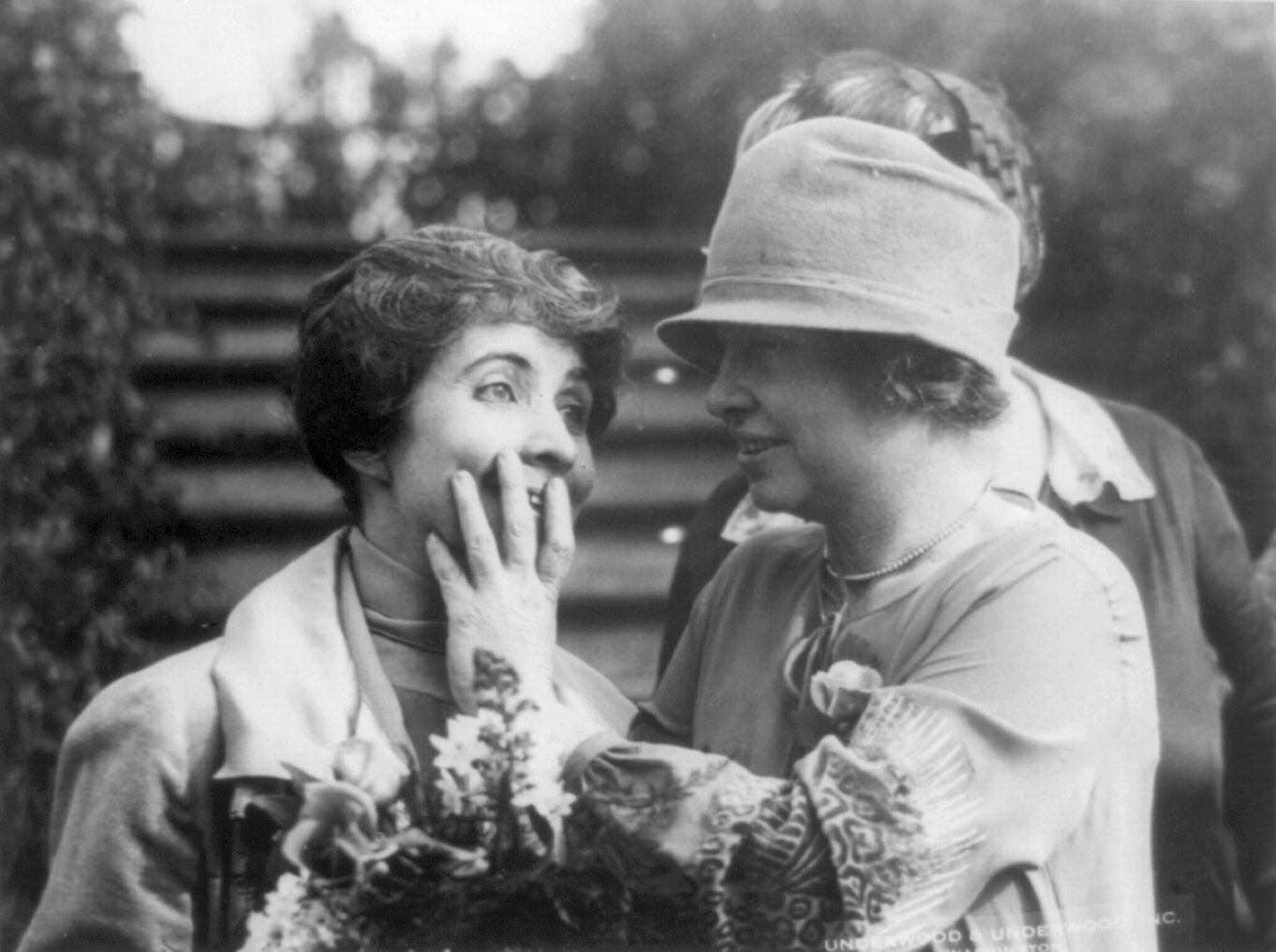 Helen Keller reading Mrs. Coolidge's lips